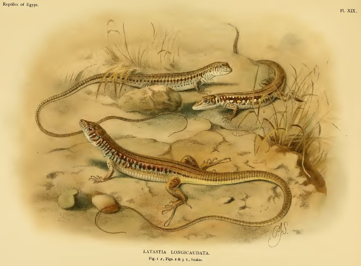 Latastia longicaudata longicaudata from: Anderson (1898): Zoology of Egypt